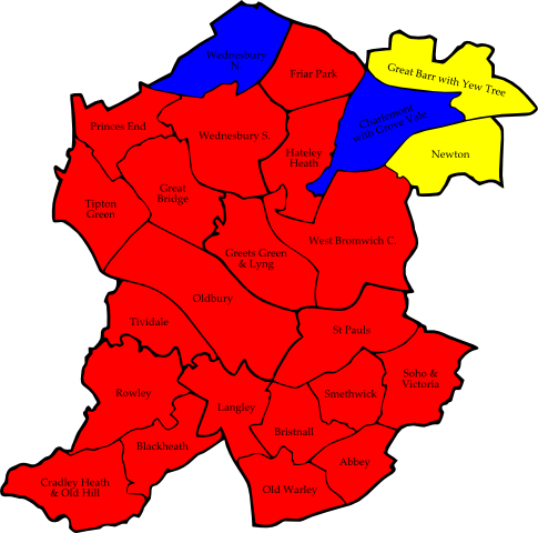 A map of the results of the 2007 Sandwell Council election. Colour legend by wards won: Labour party Conservative party Liberal Democrats